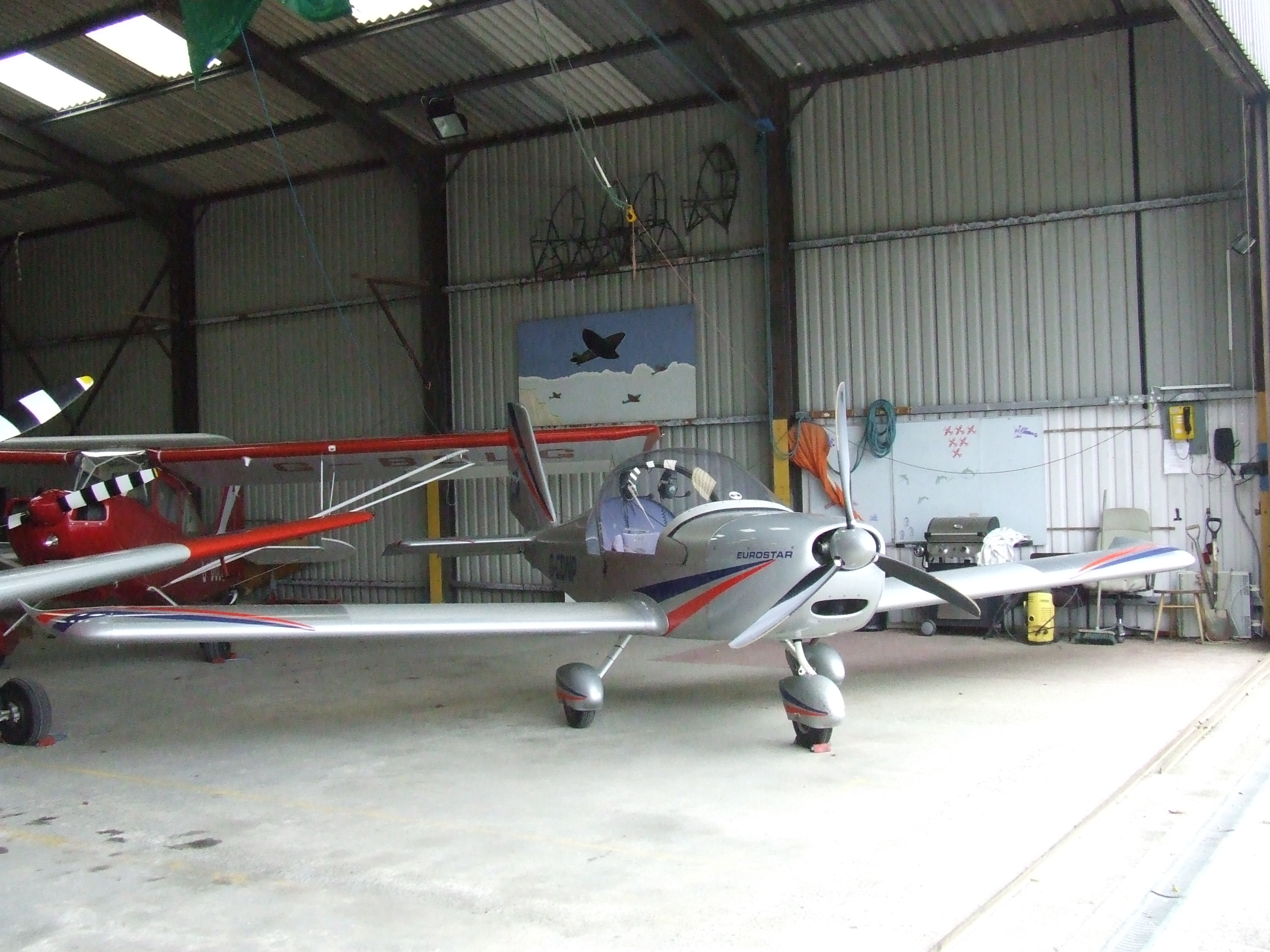 Eaglescott Airfield North Devon